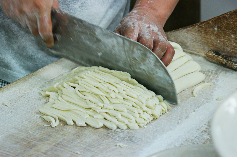 Kal-guksu